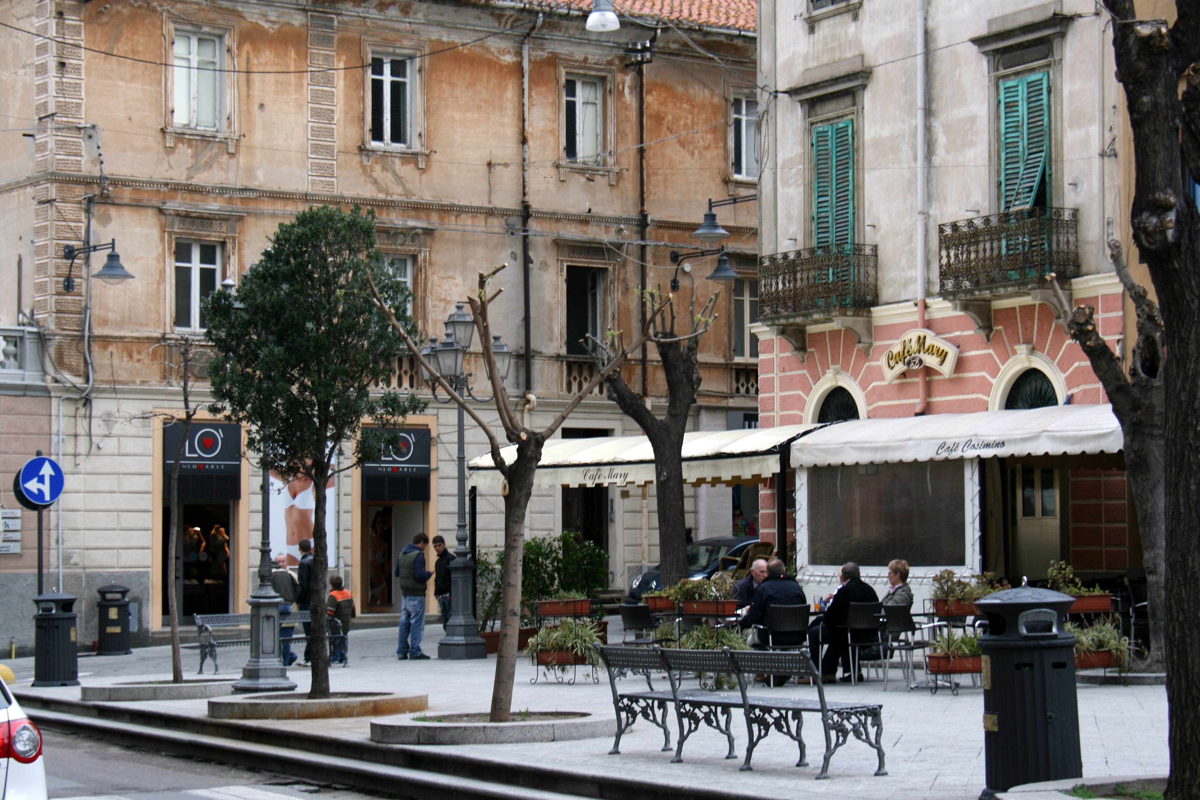 Piazza Regina Margherita (Corso Umberto crossing Via Regina Elena and Via Porto Romano), Olbia, Sardinia